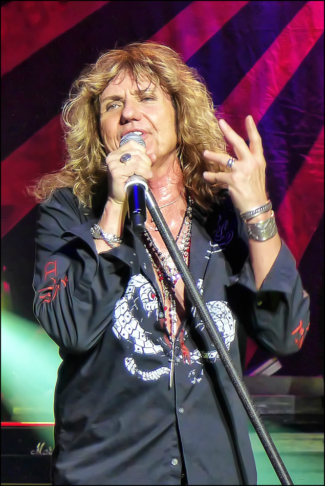 David Coverdale performing with Whitesnake in Madrid in 2013